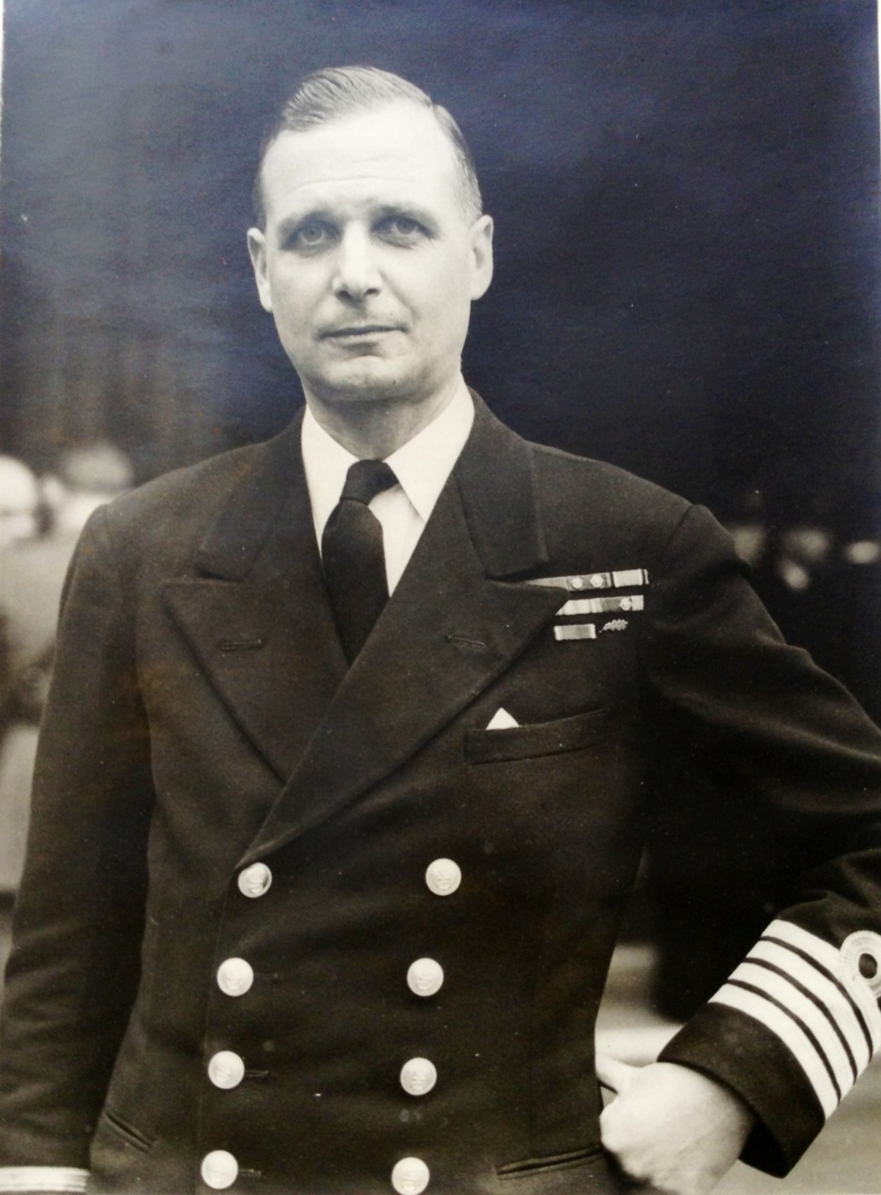 Anthony Follett Pugsley at Buckingham Palace 1945 both having been made a Companion of the Bath (Military Section) and having received a second bar to the Distinguished Service Order